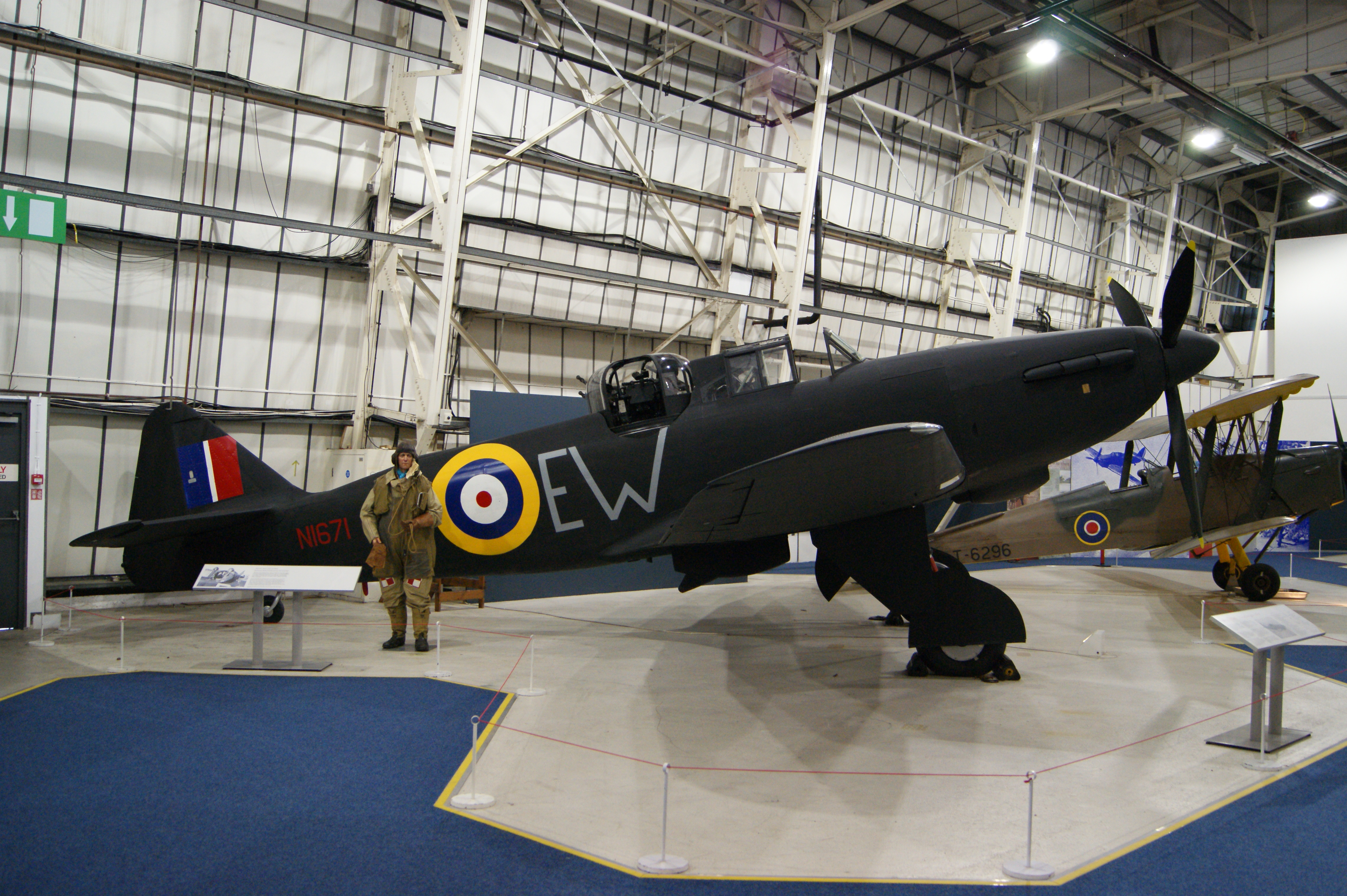 Boulton Paul Defiant II at the Battle of Britain Hall, RAF Museum, Hendon, 13 September 2015.